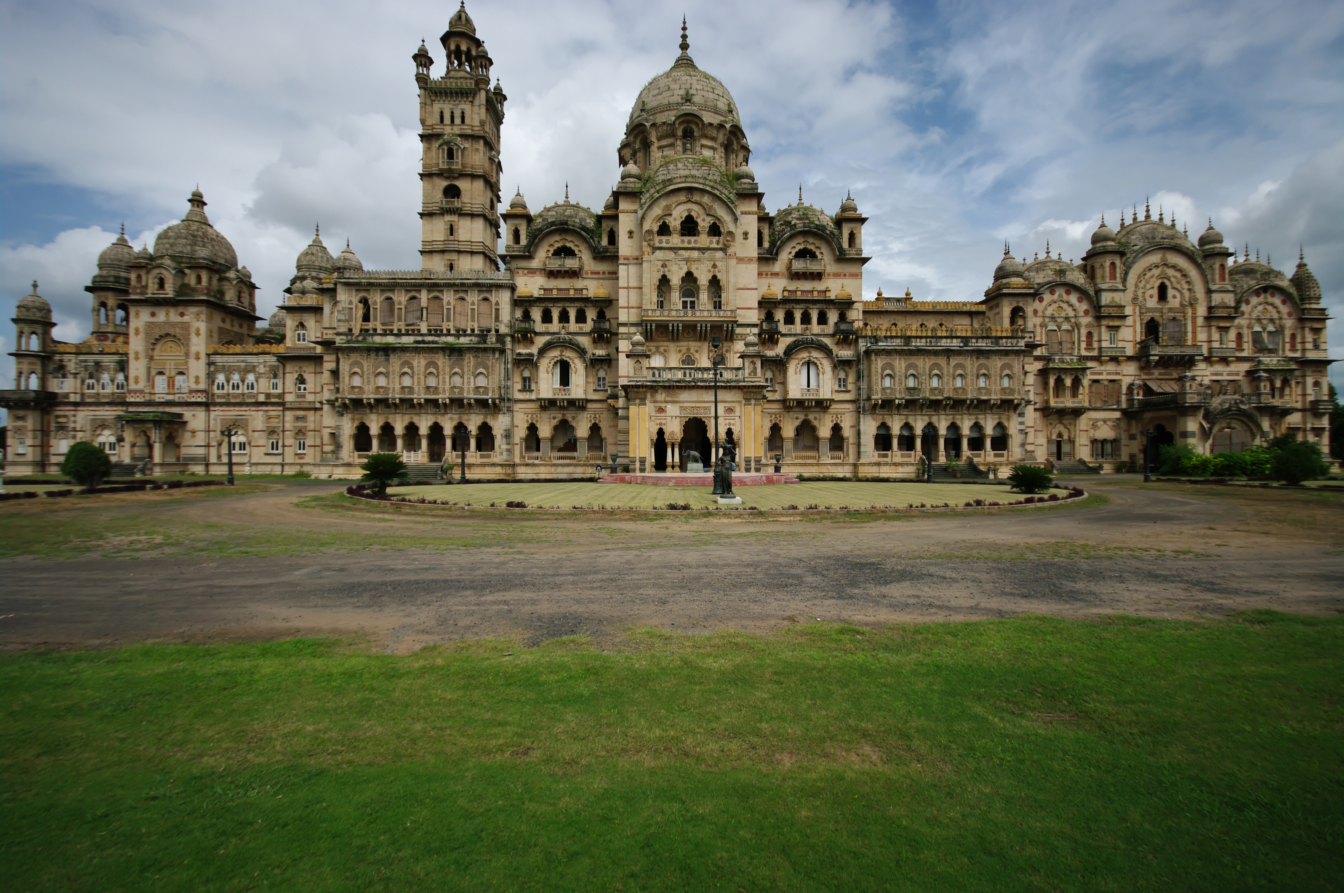 Laxmi Vilas Palace, Vadodara, India.